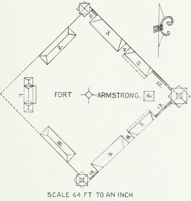 Fort Armstrong Plan